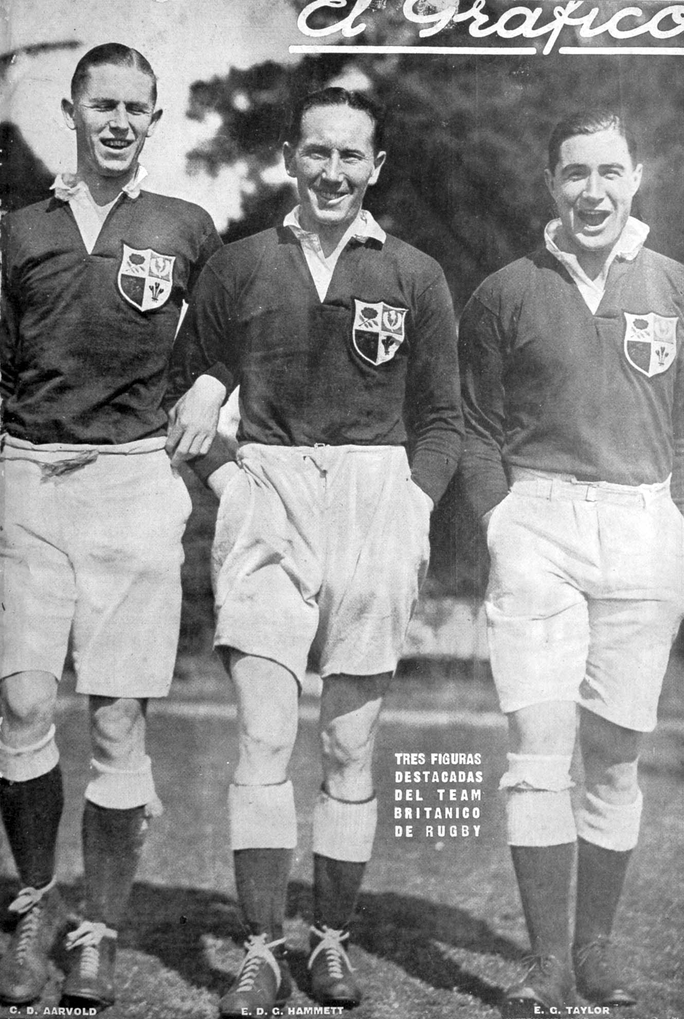 C. Aarvold, E. Hammett and E. Taylor, members of the rugby union British Lions team that toured Argentina in 1927. That was the second time that a British team arrived in the country to play a series of friendly matches (the first had been in 1910).